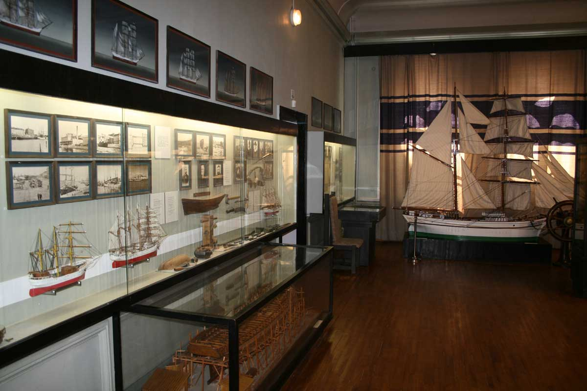 Interior view of the Museum of History of Riga and Navigation, Latvia